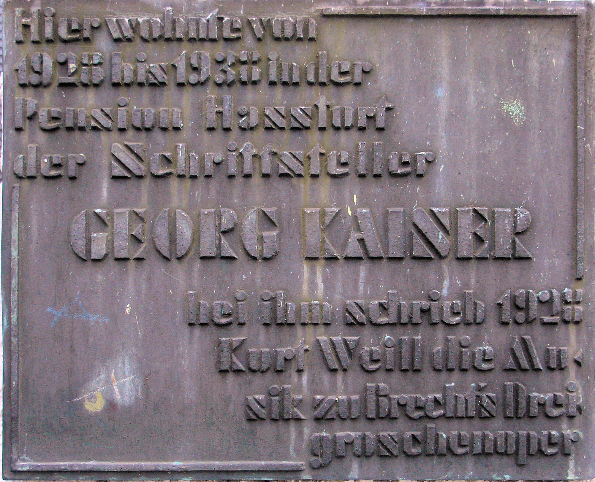 Memorial plaque, Georg Kaiser, Luisenplatz 3, Berlin-Charlottenburg, Germany